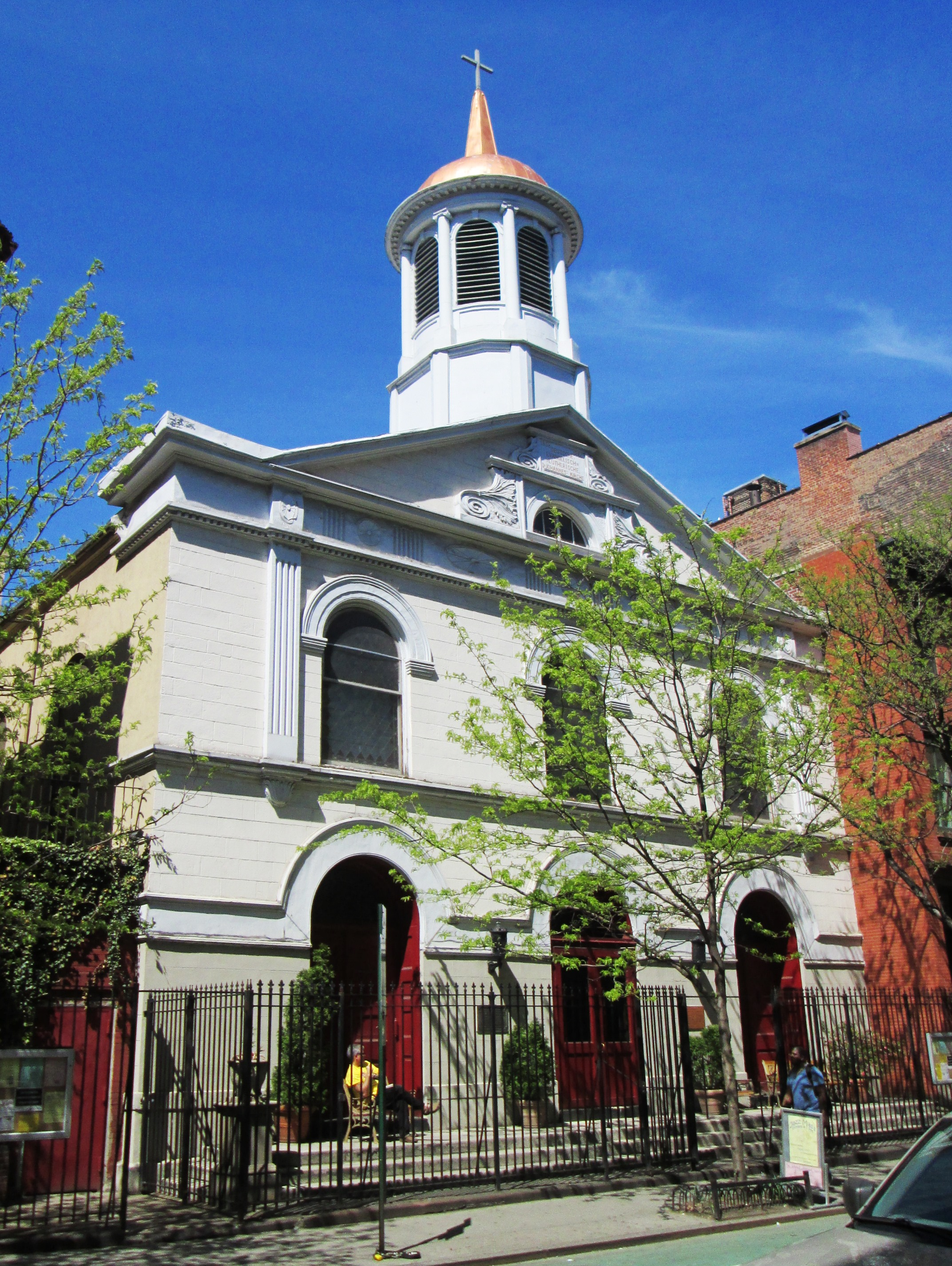 St. John's Evangelical Lutheran Church at 81 Christopher Street between Bleecker Street and Seventh Avenue South in the West Village neighborhood of Manhattan, New York City was built in 1821-22 in a modified Federal style as the Eighth Presbyterian Church, making it the sixth oldest extant place of worship in Manhattan. In the late 1790s, the site had been the location of Hartwick Seminary, the fist Lutheran seminary in the United States. In 1842 the Presbyterian congregation left, turning the church over to St. Matthew's Protestant Episcopal Church, which used it until 1858, when the German Lutheran congregation took over. Some of the church's Victorian ornamentation was added in 1886 by Berg & Clark. (Sources: From Abyssinian to Zion and historical plaques on the church)